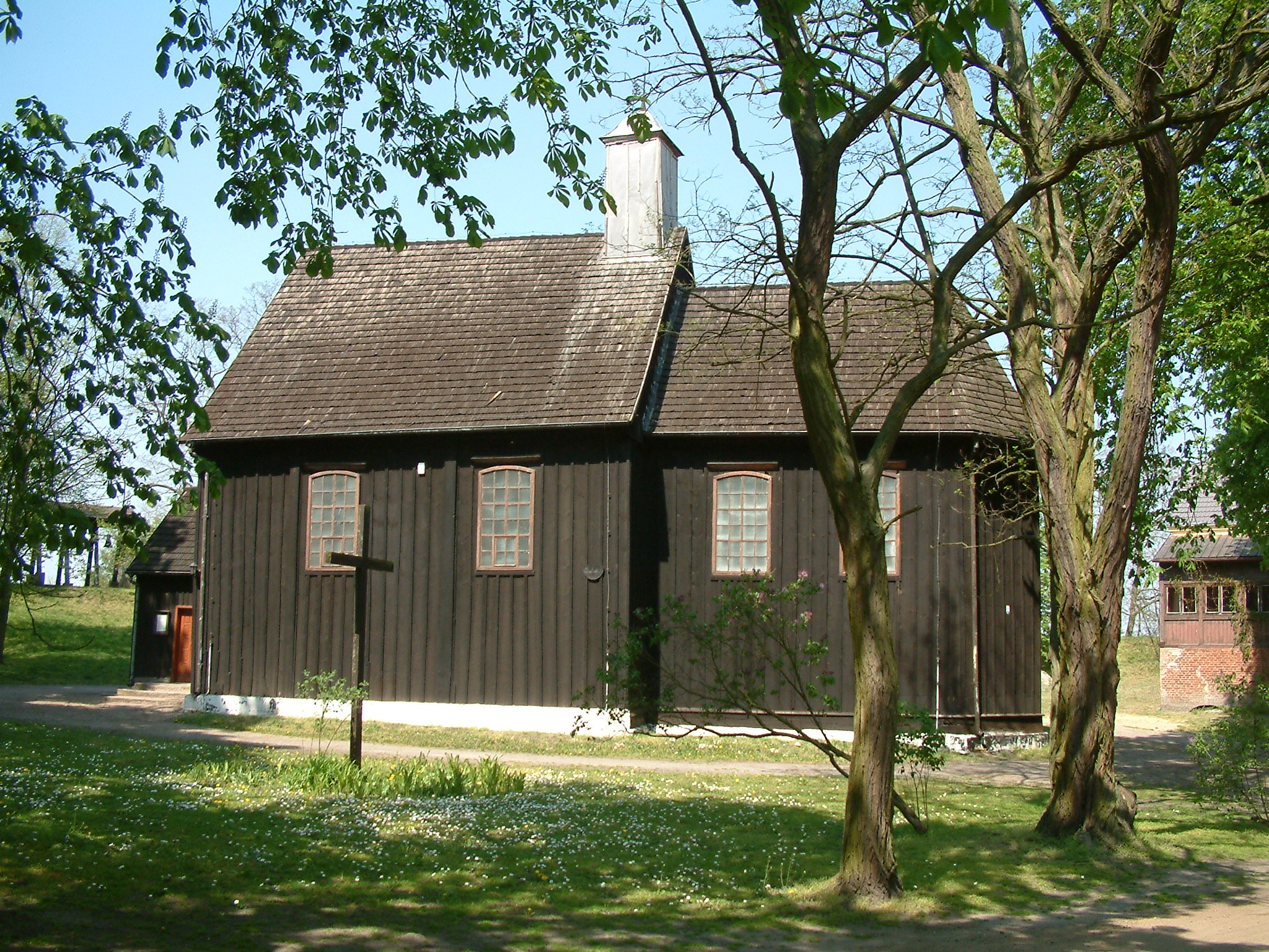 Church of St. John the Baptist in Giecz